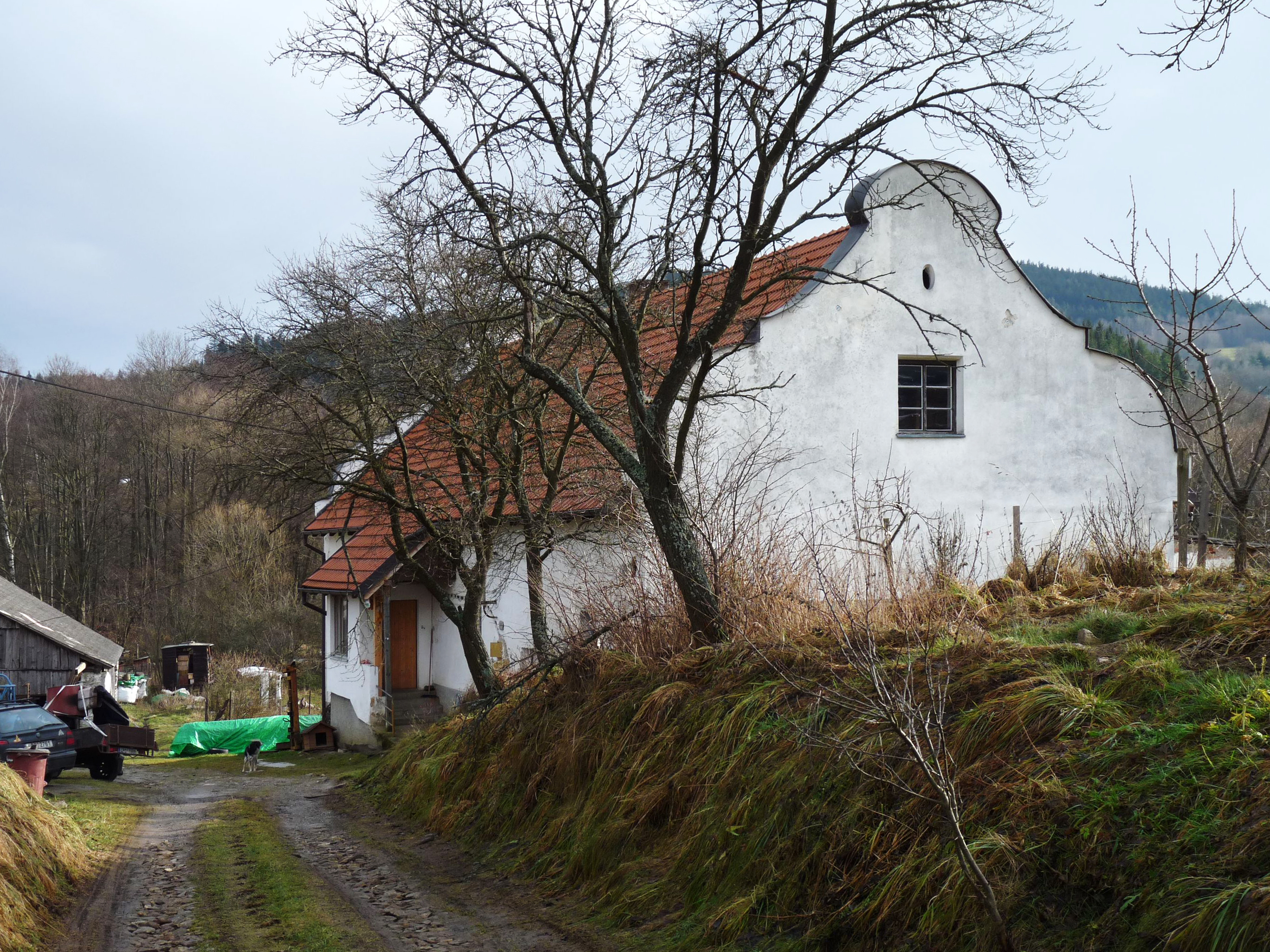 Water mill, house No 13 in the village of Petrovice u Sušice, Klatovy District, Plzeň Region, Czech Republic.